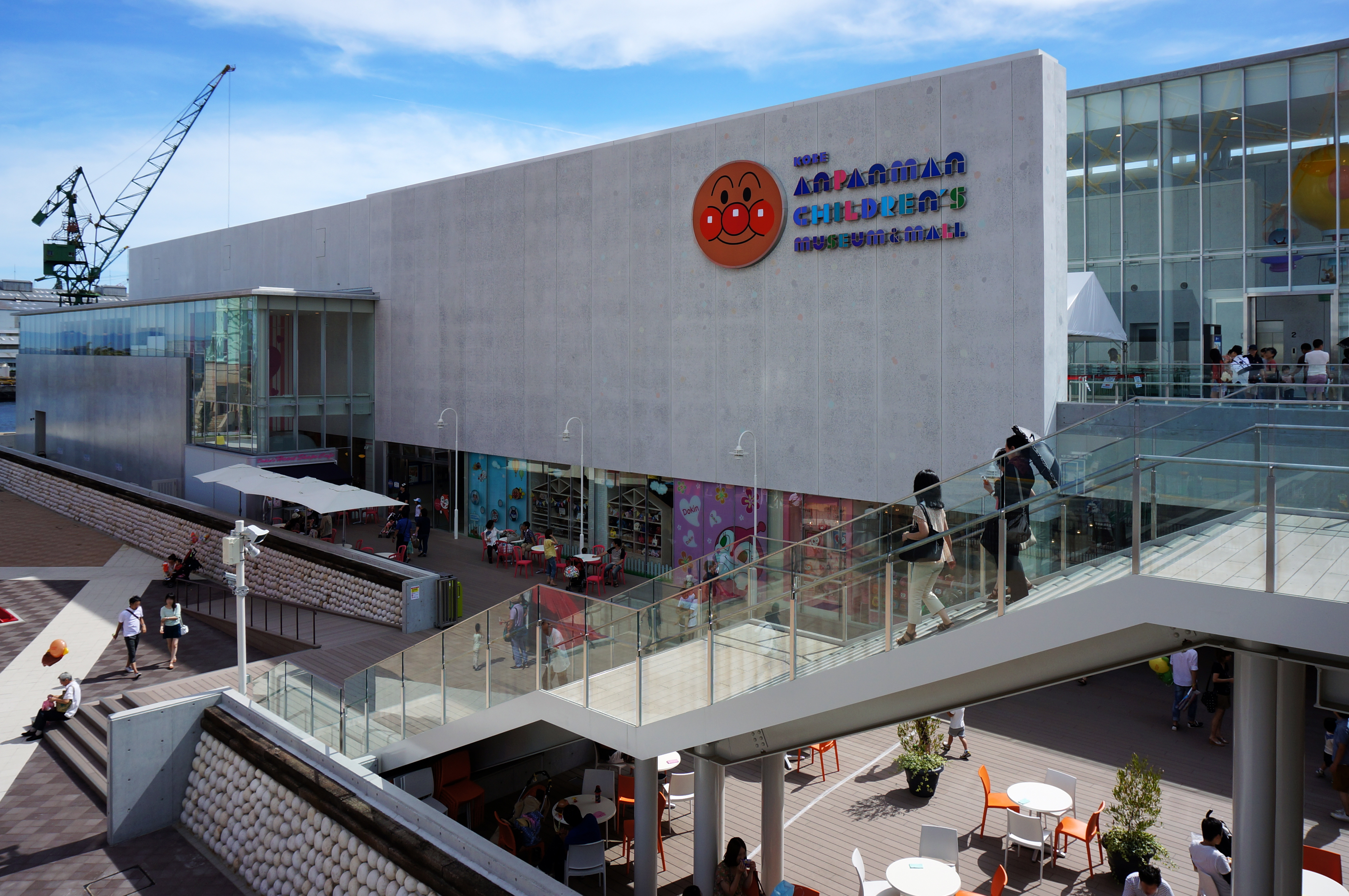 Kobe Anpanman Children's Museum & Mall in Harborland, Kobe, Hyogo prefecture, Japan.